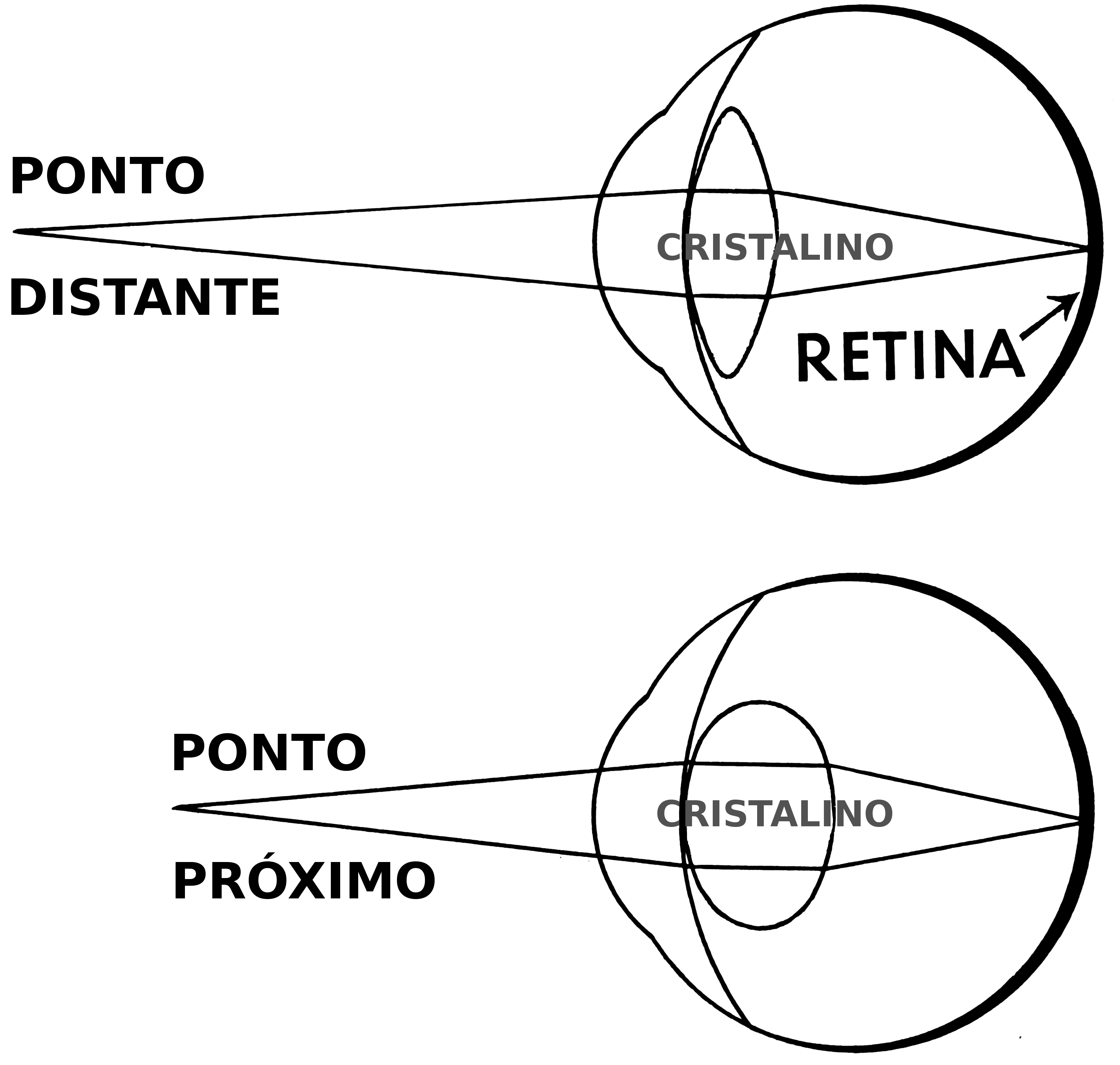 A diagram showing accommodation.